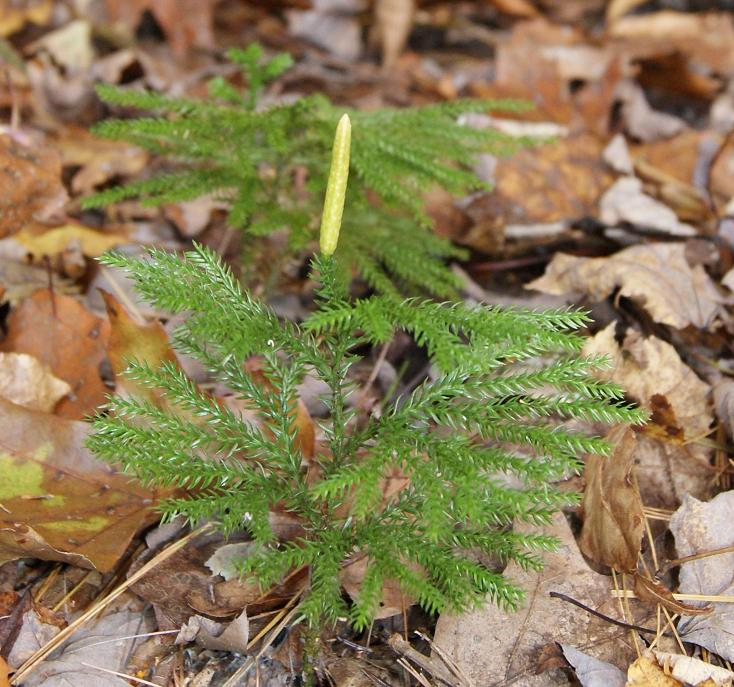 Tree Groundpine Lycopodium dendroideum Beartown State Forest, MA